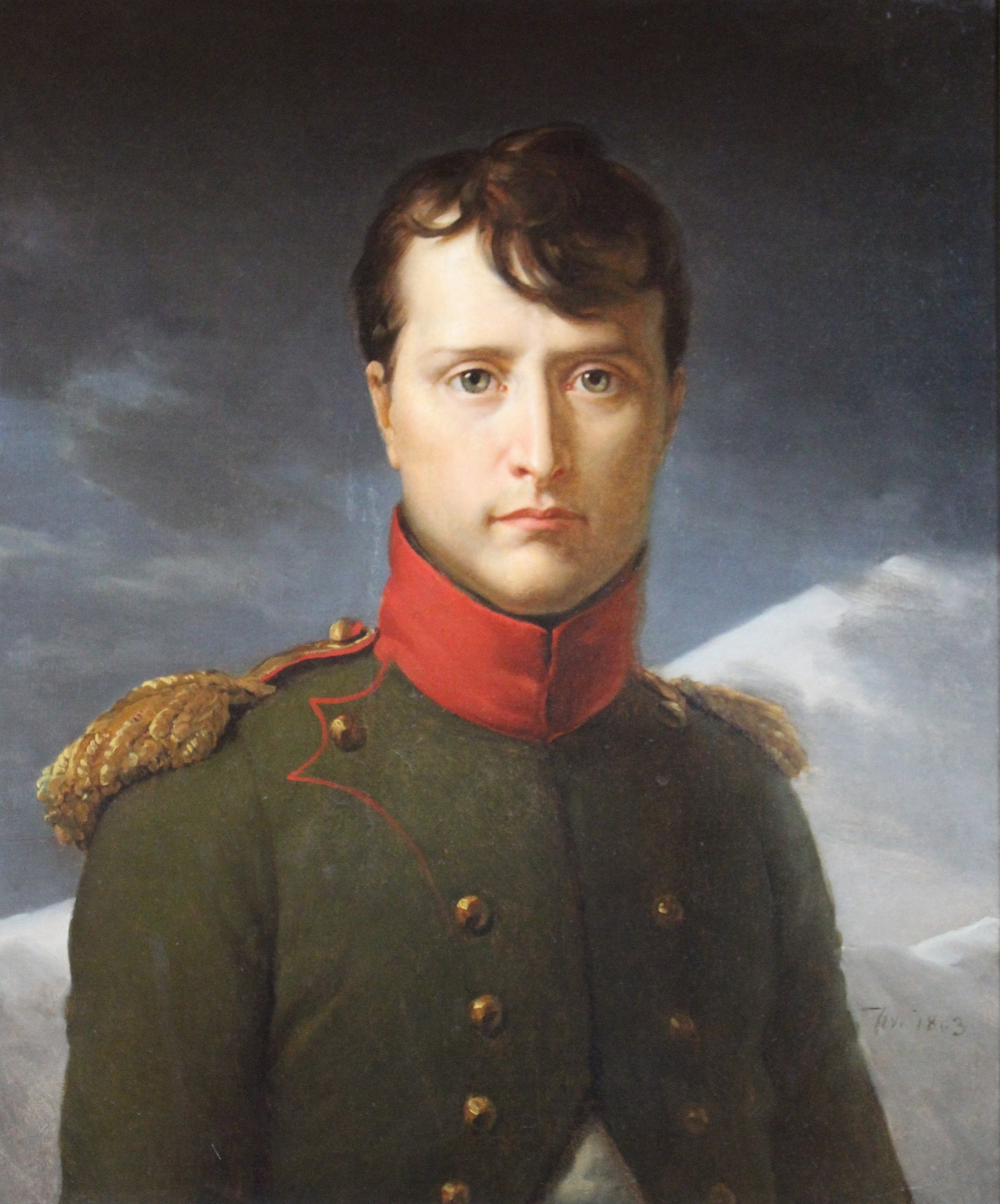 Château de Chantilly, François Gérard, portrait of Napoleon Bonaparte